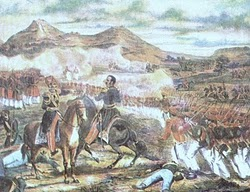 Litography of the Battle of Famaillá